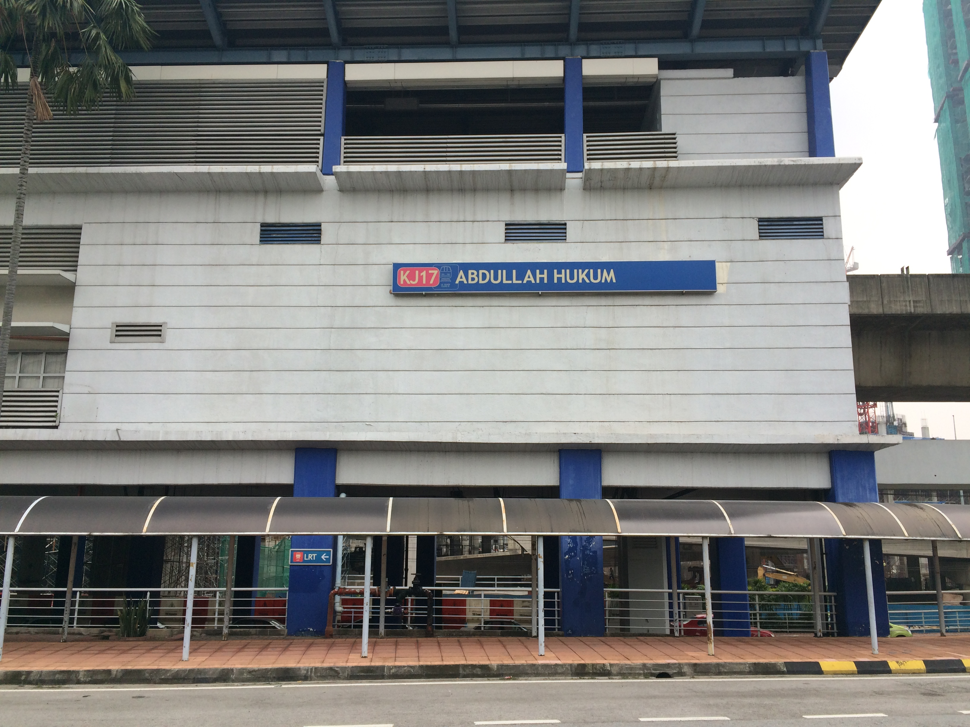 Abdullah Hukum - Main Building